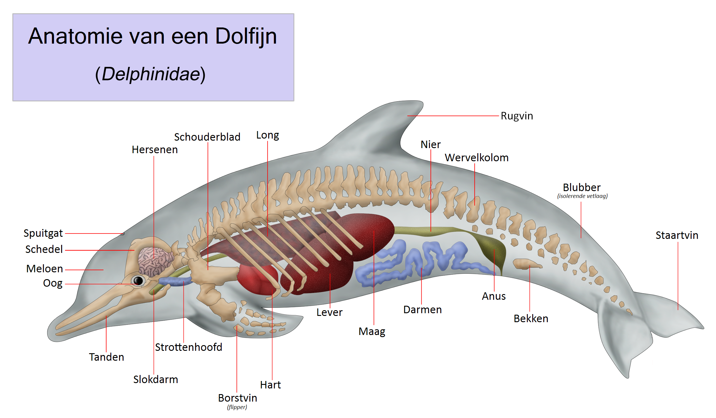 Anatomy of a Dolphin (Dutch Version)